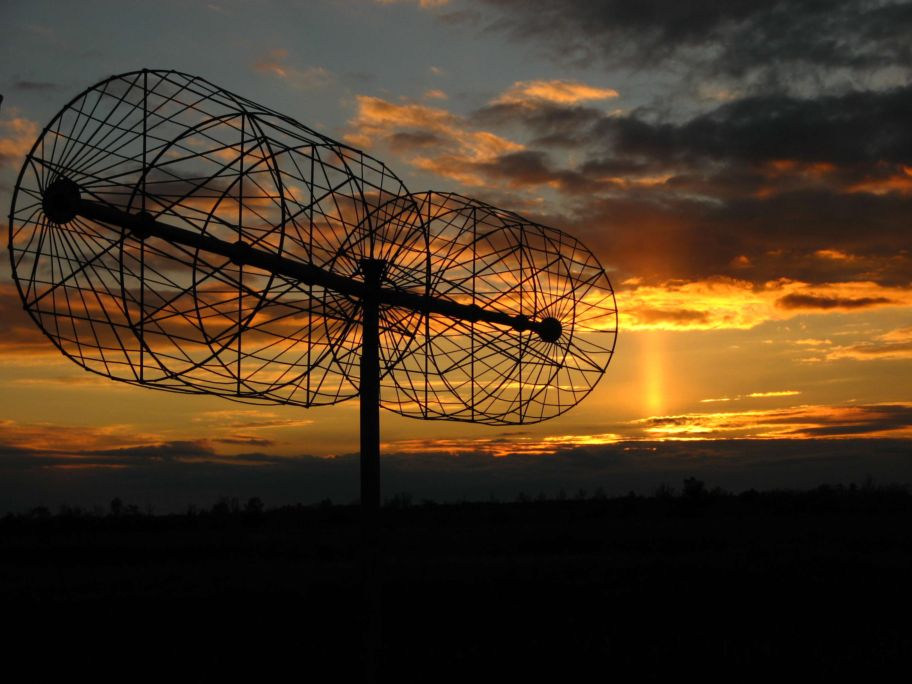 A dipole element of UTR-2 radio telescope antenna array and sunset with light pillar, Volokhiv Yar village, Kharkiv region, Ukraine. October 16, 2016. The Ukrainian radio telescope UTR-2 is the world's largest low-frequency radio telescope at decametre wavelengths. It consists of a T-shaped array of 2040 broadband cage dipole antenna elements like this. Each dumbbell shaped element is 1.8 m in diameter and 8 m long, made of galvanized steel wire, mounted 3.5 m above the ground, with a balun to connect it to the transmission line These large cylindrical elements allow the antenna to receive a wide bandwidth of frequencies from 8 to 33 MHz.